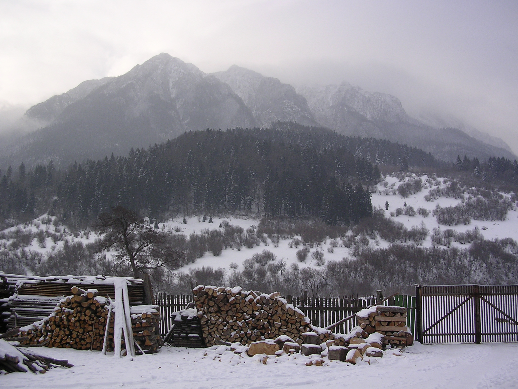 View of the Piatra Craiului mountains from Zărneşti, Romania.